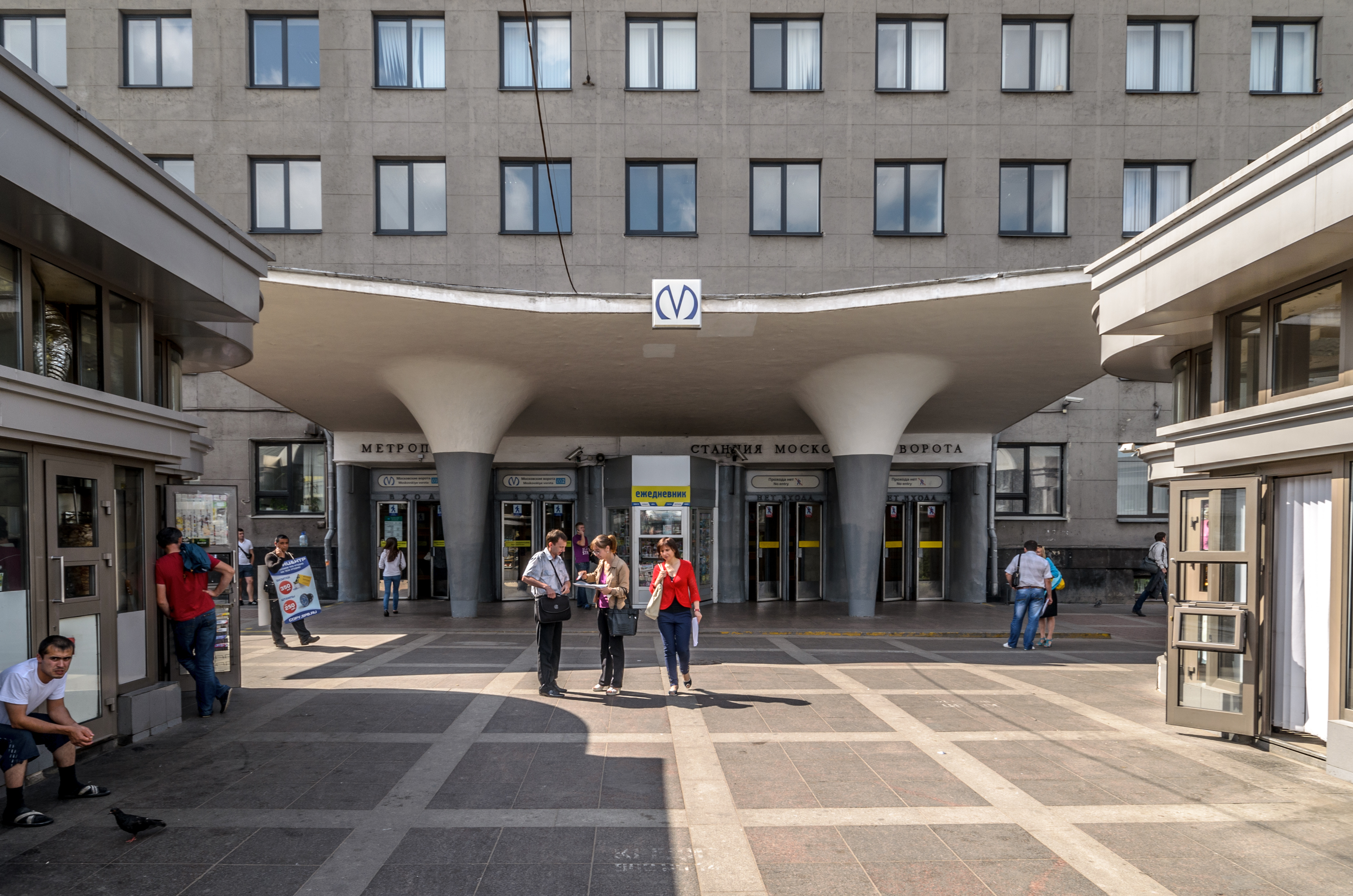 "Moskovskie Vorota" station of Saint Petersburg Metro, entrance